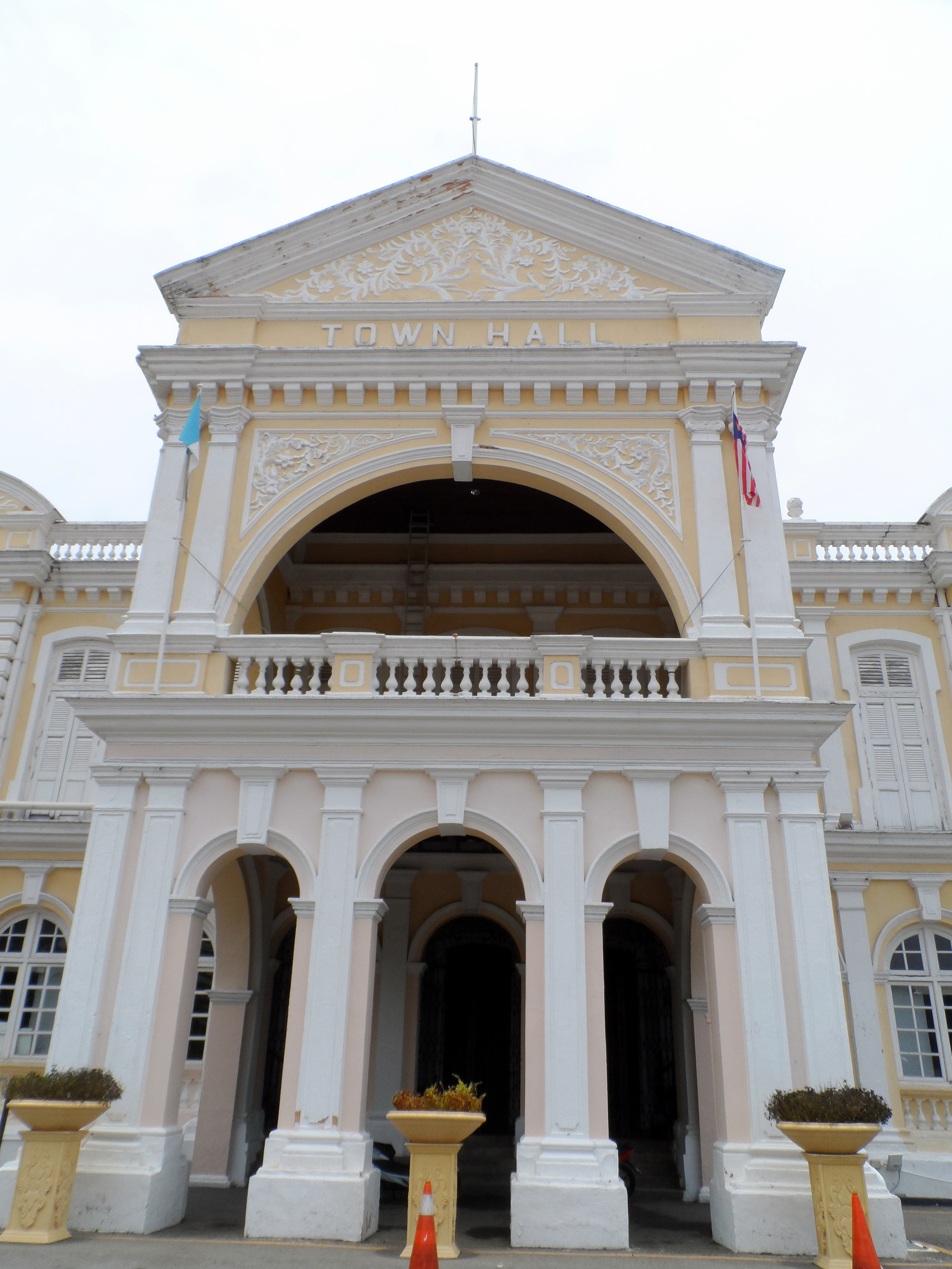 The Town Hall in George Town, Penang, built in 1880.